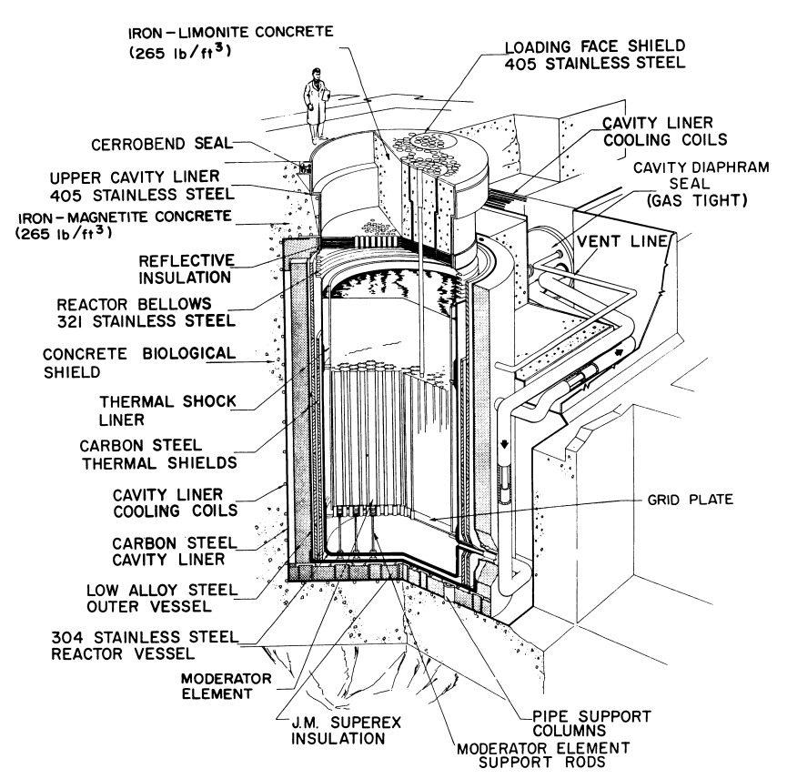 This is the reactor structure in the Hallam sodium-graphite power plant that operated in Nebraska.